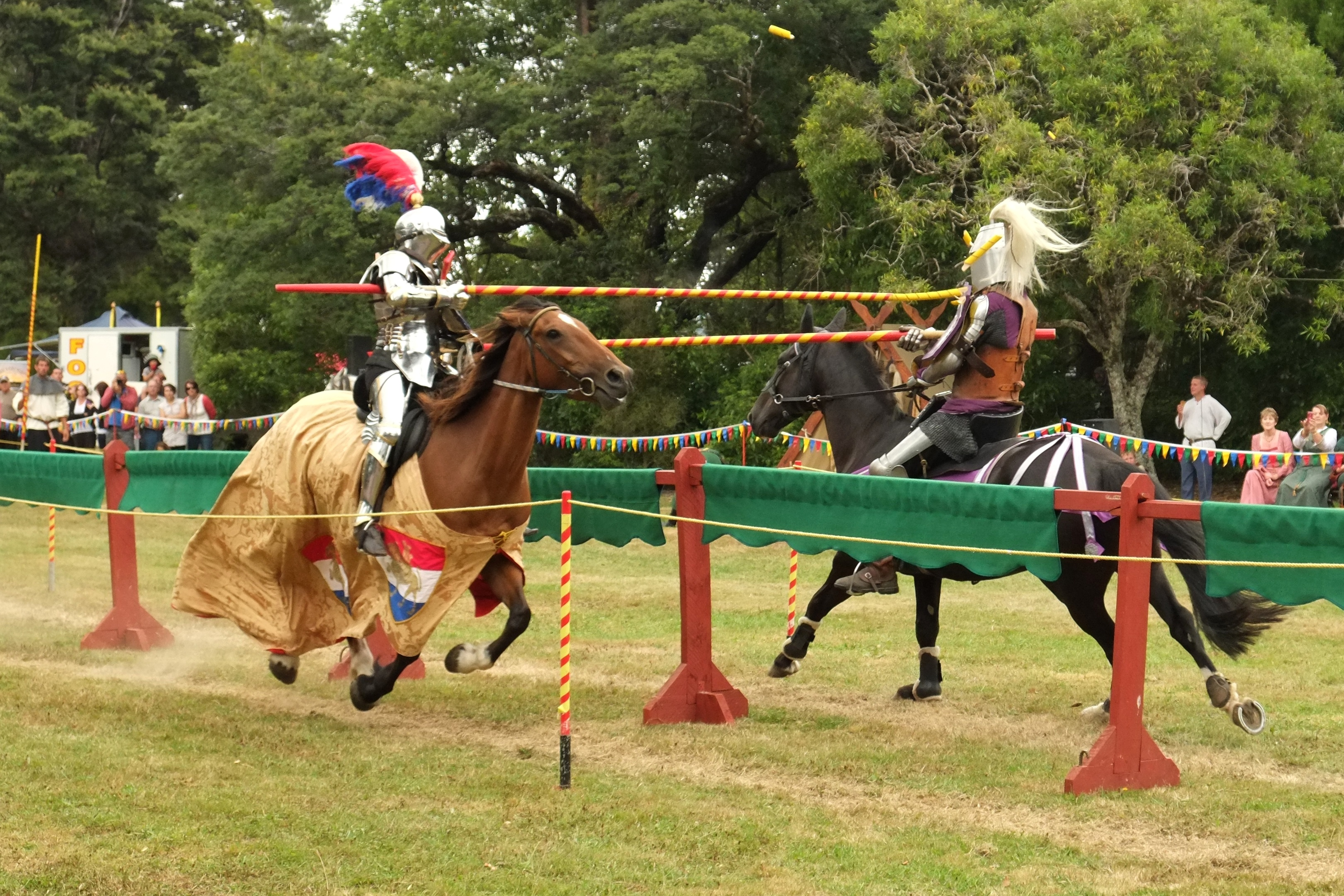 Two knights on horseback jousting, lance tips breaking on shields (7th Harcourt Park World Invitational Jousting Tournament, Harcourt Park, Upper Hutt)